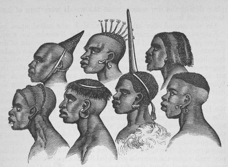 Hair-dresses of Wanyamwezi